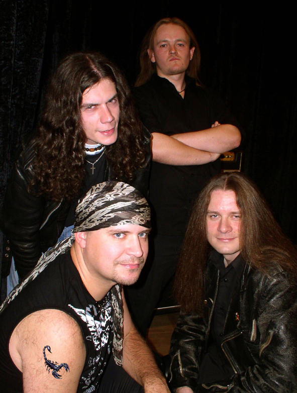 Tipsy Train